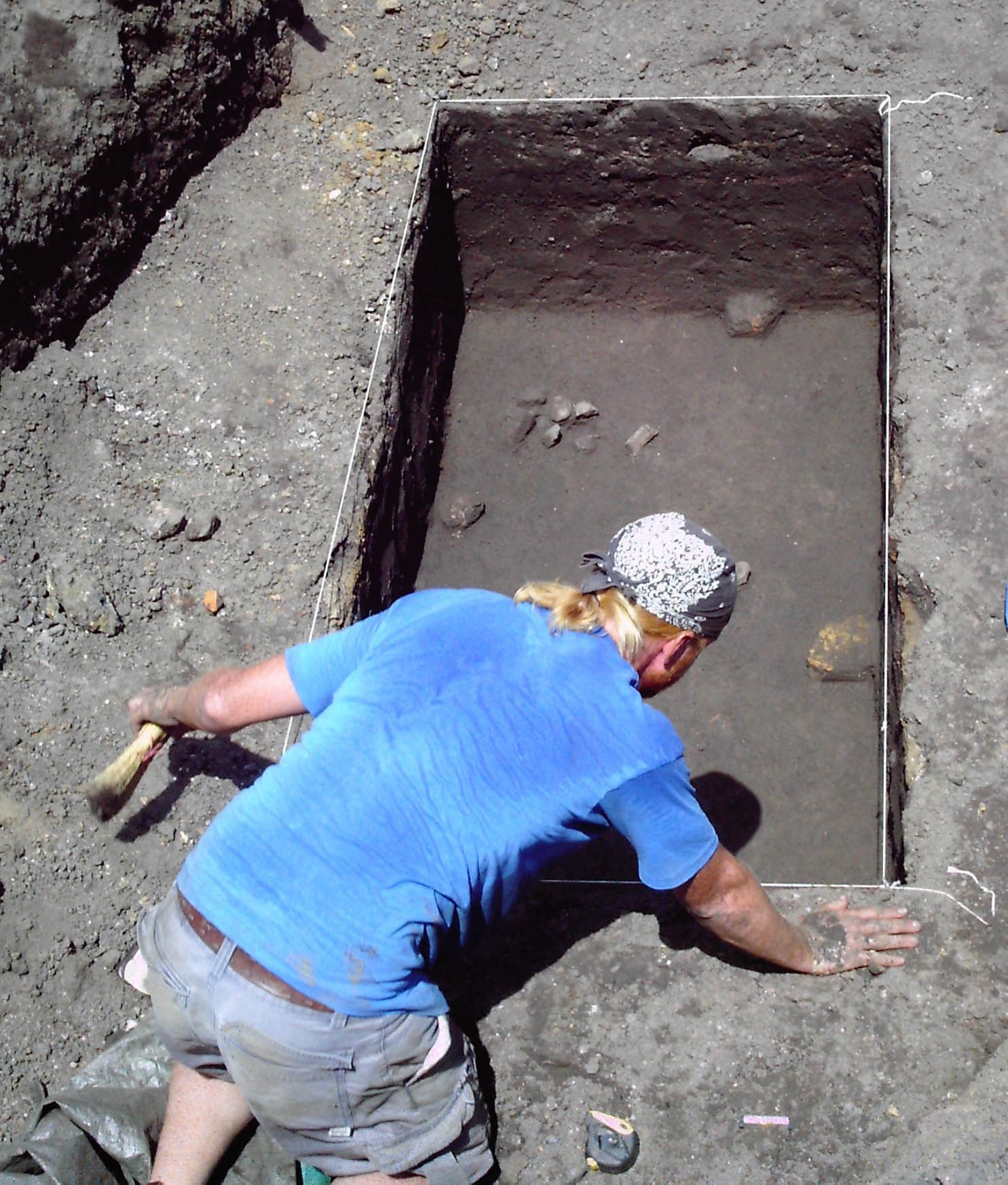 Excavations at the Birds Run Site (13PK856), Des Moines, Iowa, by the Iowa Office of the State Archaeologist. Tom Kearns is the excavator, shown exposing part of the Oneota component. Please note the metadata is incorrect, it was taken in 2007, not 2004.Excavations at the Birds Run Site, Des Moines, Iowa.